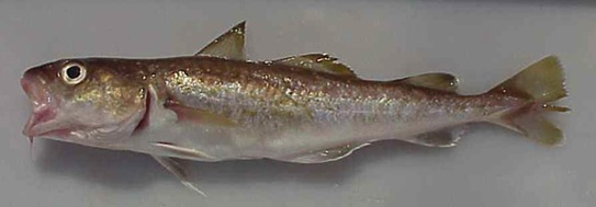 Young Pacific cod, Gadus macrocephalus